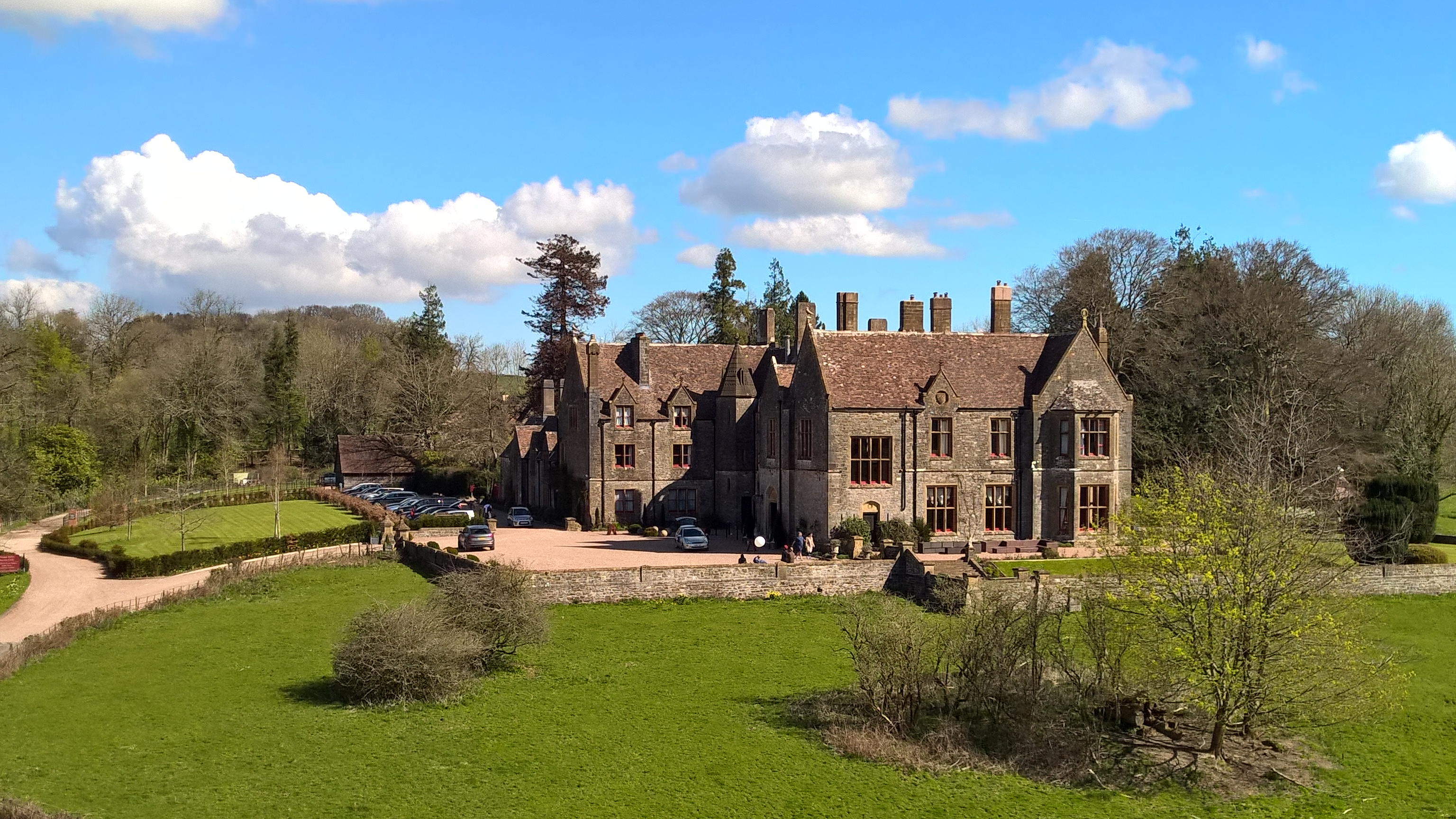 Huntsham Court, Devon as viewed from the tower of All Saints Church.